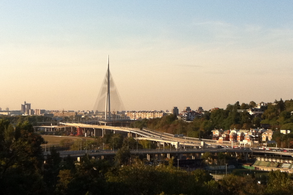 Overview of the Ada Bridge, Belgrade, Serbia